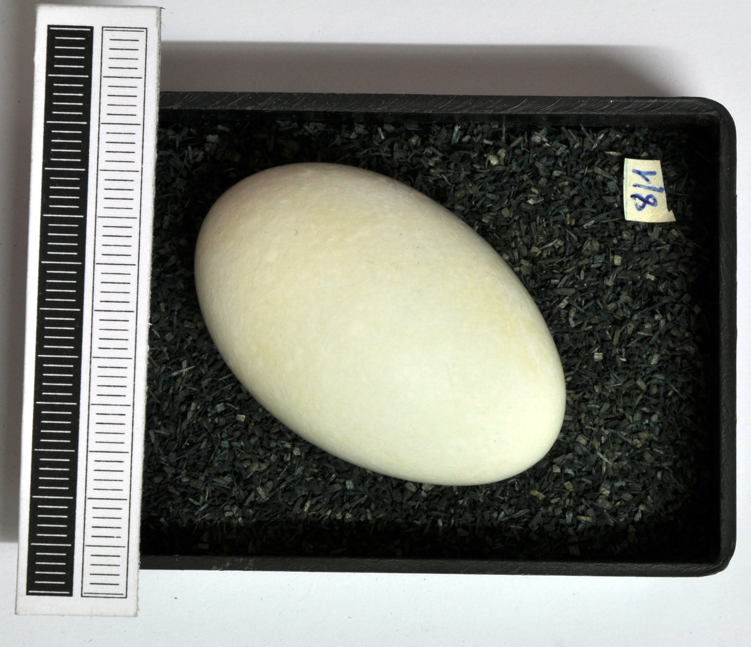 Black-necked grebe Podiceps nigricollis, egg, Coll. Museum Wiesbaden, Origin: Ismaning, Bavaria, 10.06.1969, leg. W. Abelmann